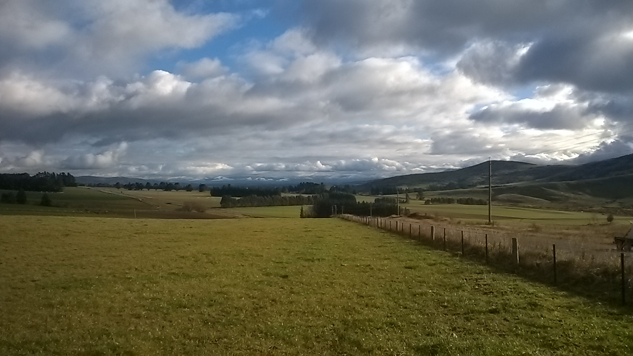 Photo of Eyre Creek from the Jollies Hill Pass.